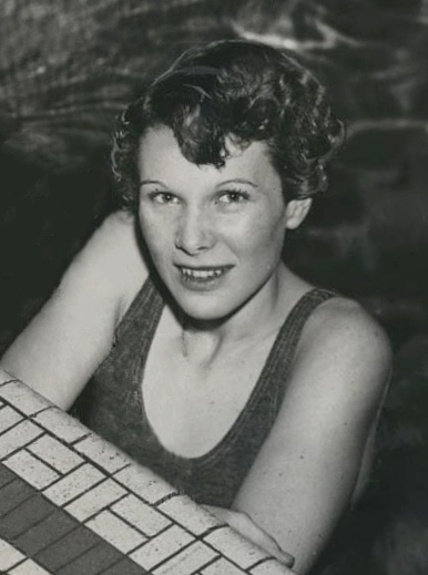 1935 Press Photo New York Elizabeth Kompa And Mavis Freeman Florida Bound NYC